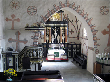 Interior view of the church in Kölzow from balcony towards pulpit and altar